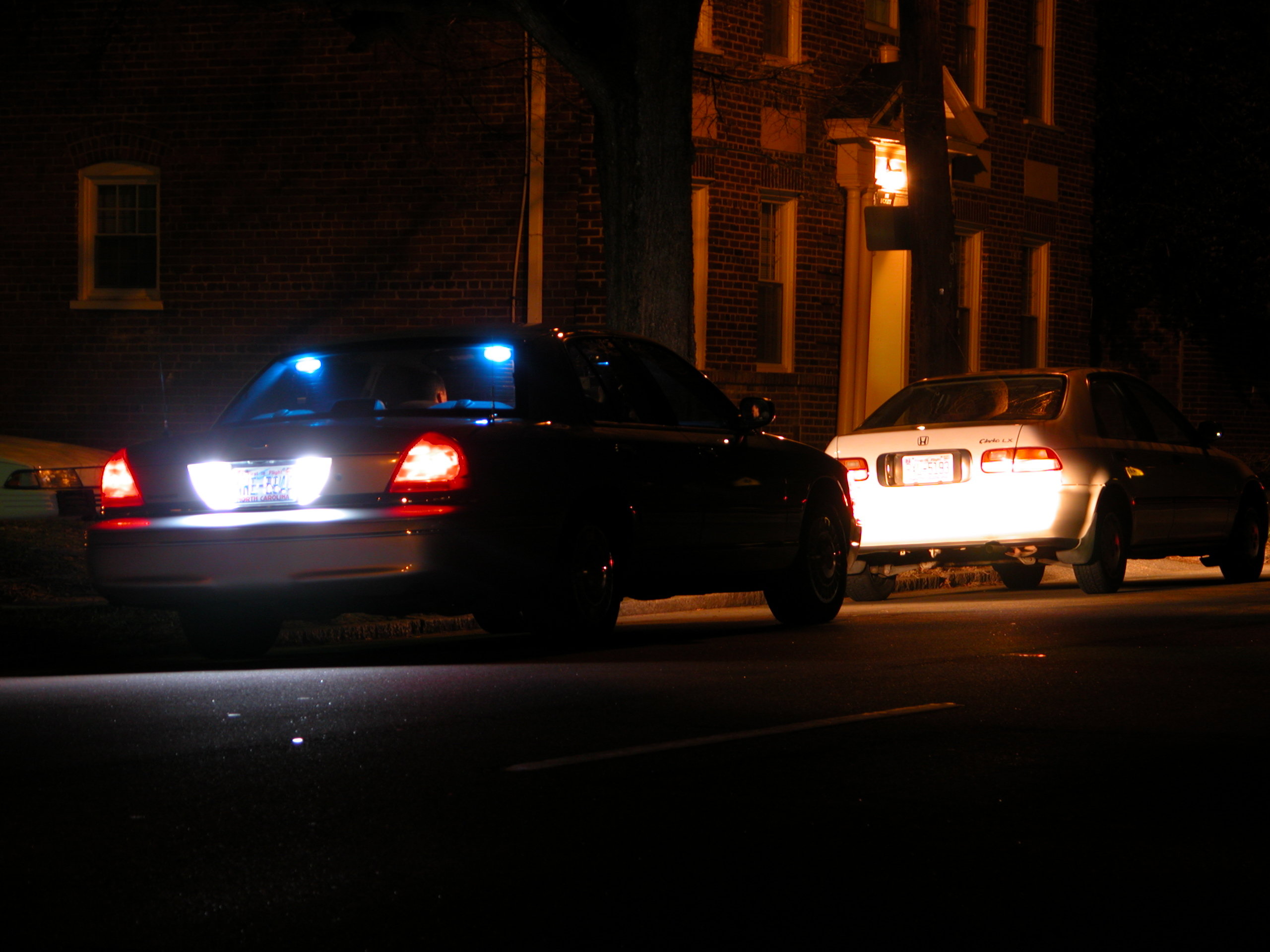 Night-time traffic stop on Gregson St in Durham, North Carolina.